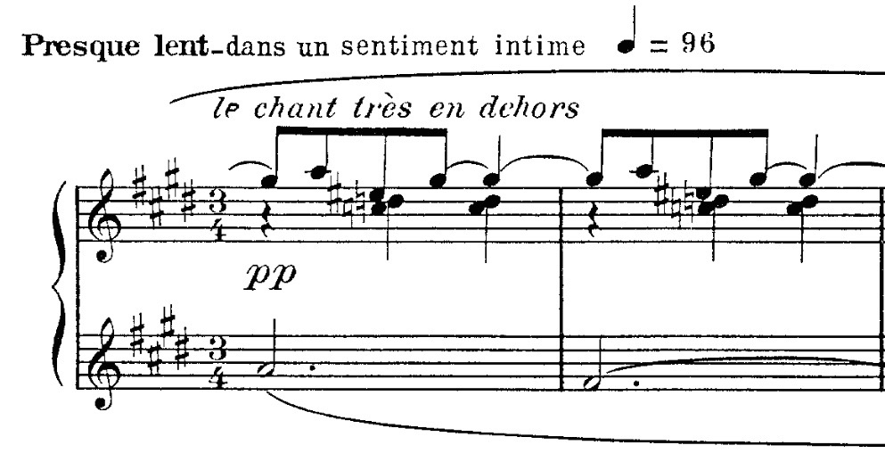 Valse No. 5